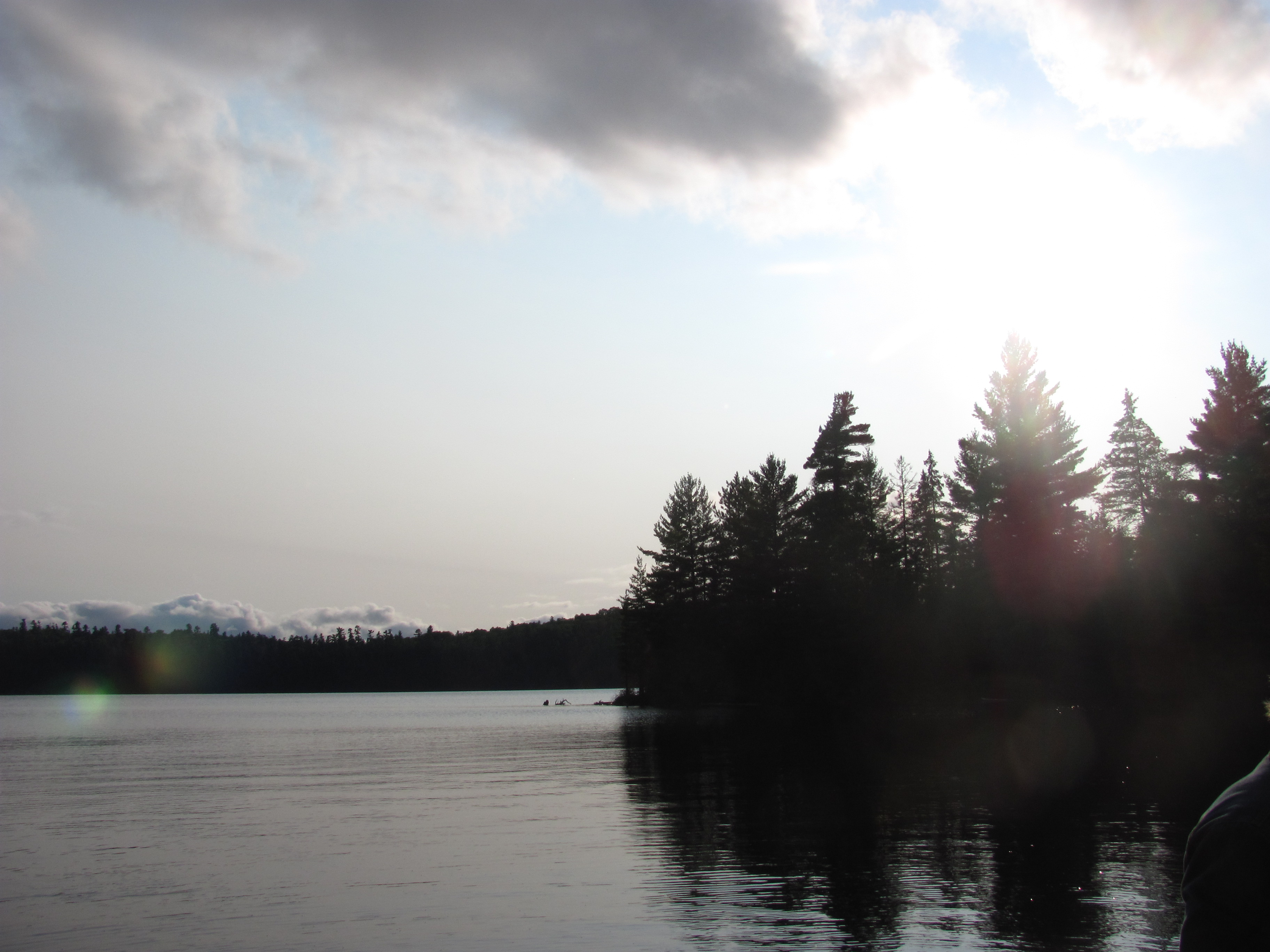 Sunset at the northern arm of Cross Lake, Temagami, Ontario, in summer 2017.